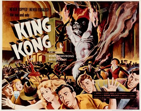 The film poster for King Kong (1933), probably Wray's greatest-known film. King Kong.